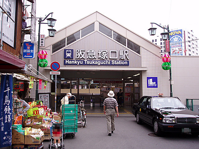 Hankyu Railway Kobe Main Line & Itami Line Tsukaguchi Station Building North Gate阪急電鉄 神戸本線＆伊丹線 塚口駅 北出口